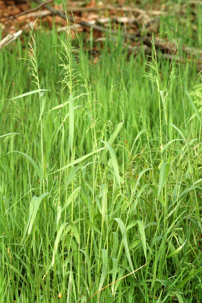 Milium effusum from Commanster, Belgian High Ardennes .